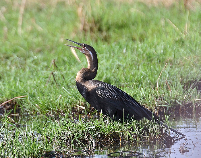 african Darter in Chobe N.P. (Botswana) photo self taken by Susann Eurich (Kilara), November 2005